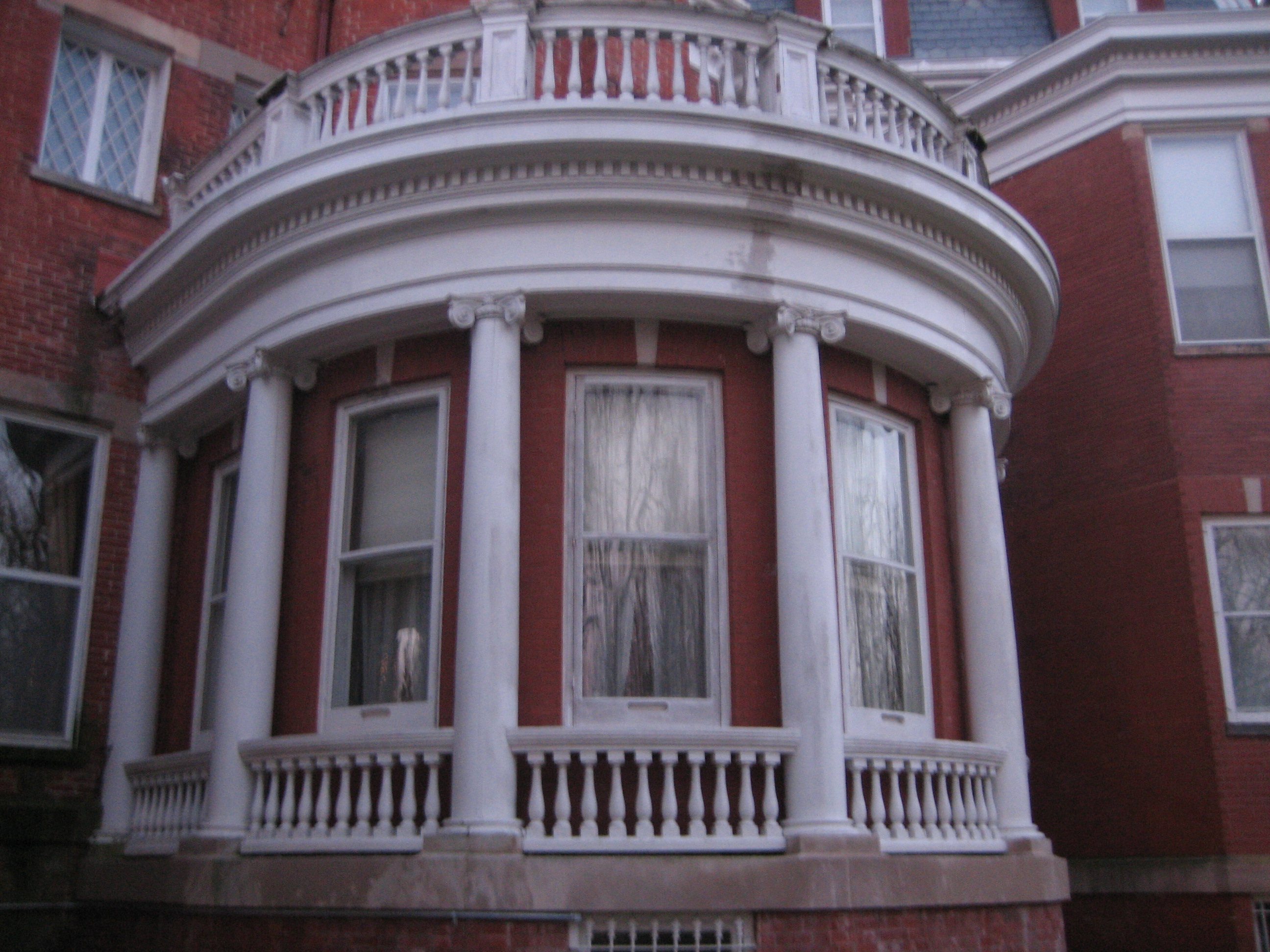 Ellwood House. DeKalb, Illinois. National Register of Historic Places. Semi-circular bay window addition to dining room, c. 1898.